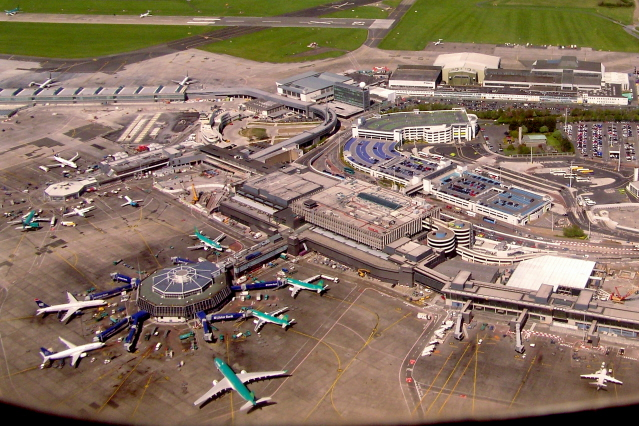 Dublin Airport from the air - Taken on an Aer Arann flight from Dublin to Donegal